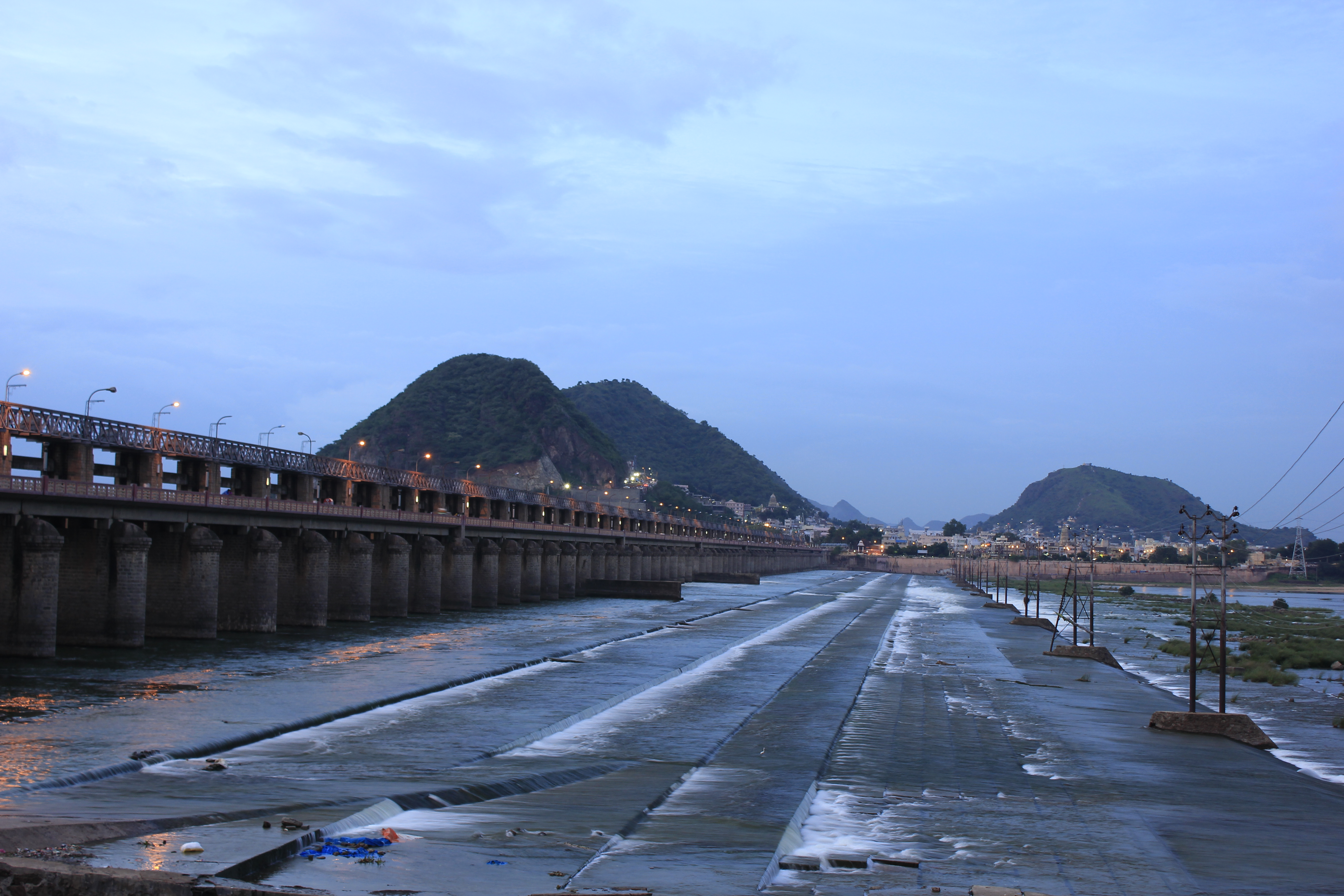 A view of Prakasam Barrage from Tadepalle